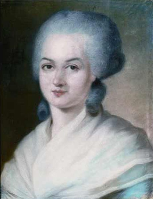 Detail of Kucharski's portrait of Olympe de Gouge